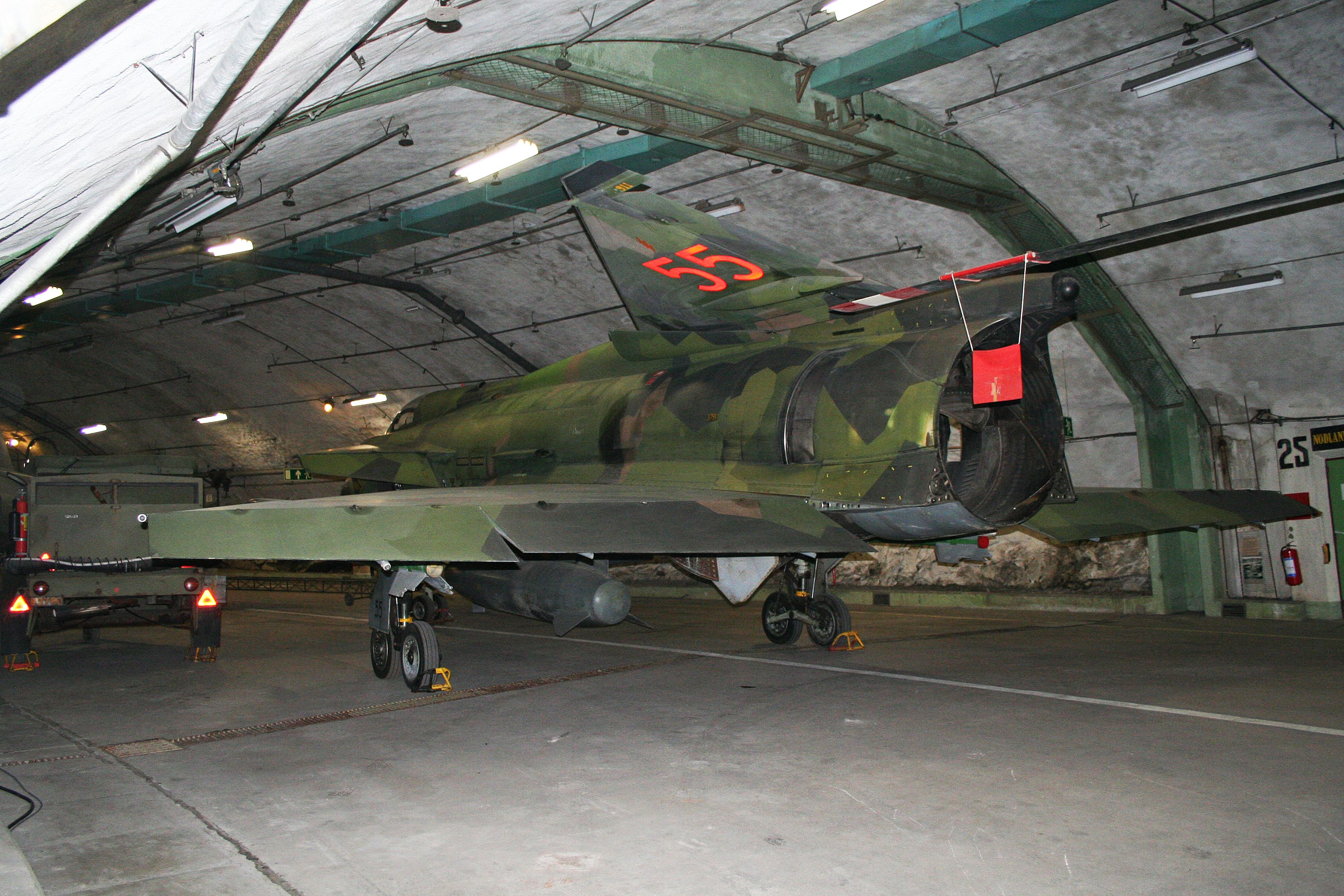 I'm not sure these tunnels were built with Viggens in mind. At least the fin is designed to do this! msn 37-911. Displayed in the entrance tunnel. The Aeroseum, Gothenburg Save, 02-6-2012